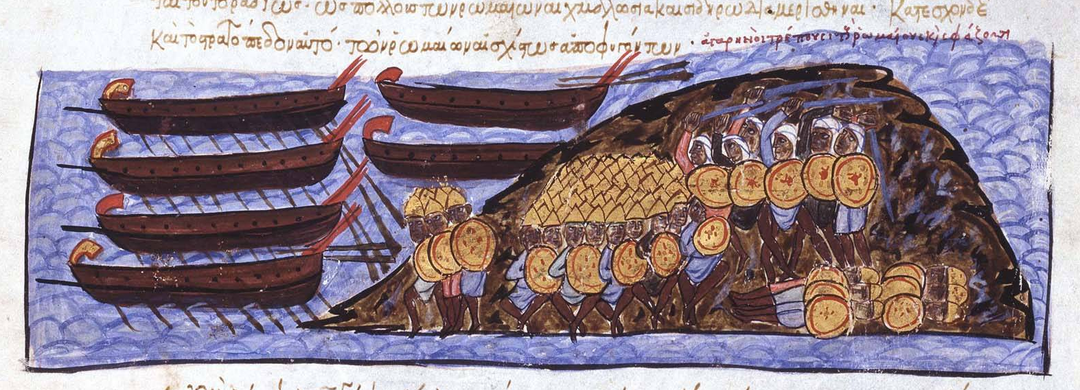 The Saracens of Crete defeat a Byzantine reconquest attempt in 949 and drive the Byzantine army back to its ships